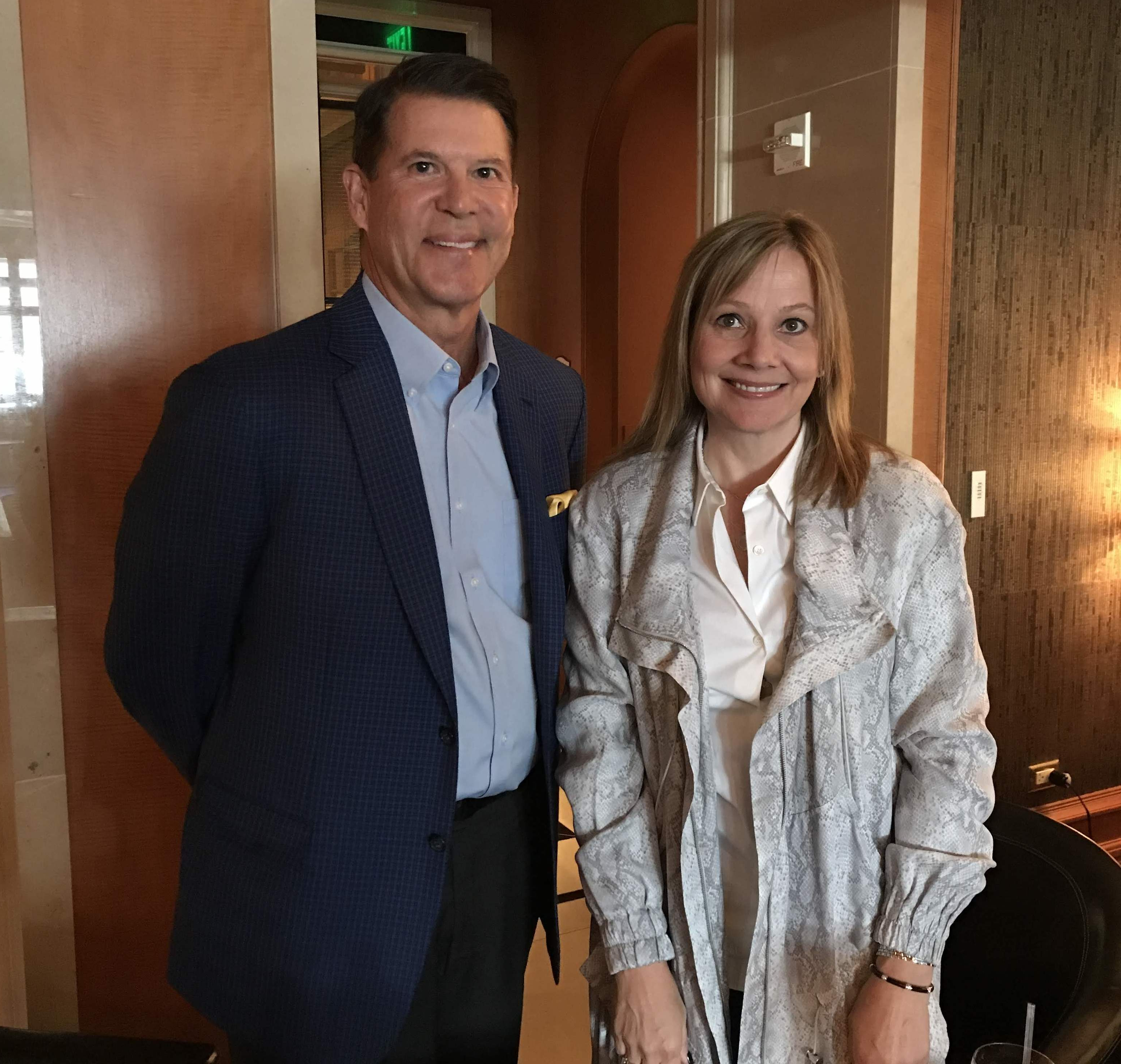 American entrpereneur Keith Krach and Mary Barra, CEO of General Motors, in 2017